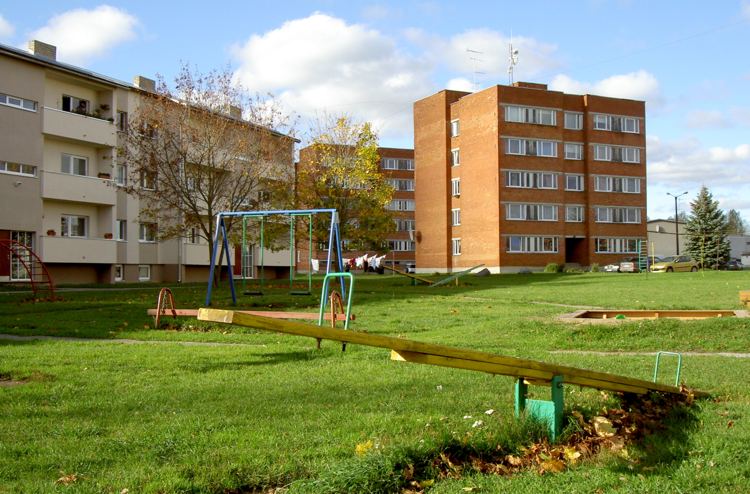 Kiili